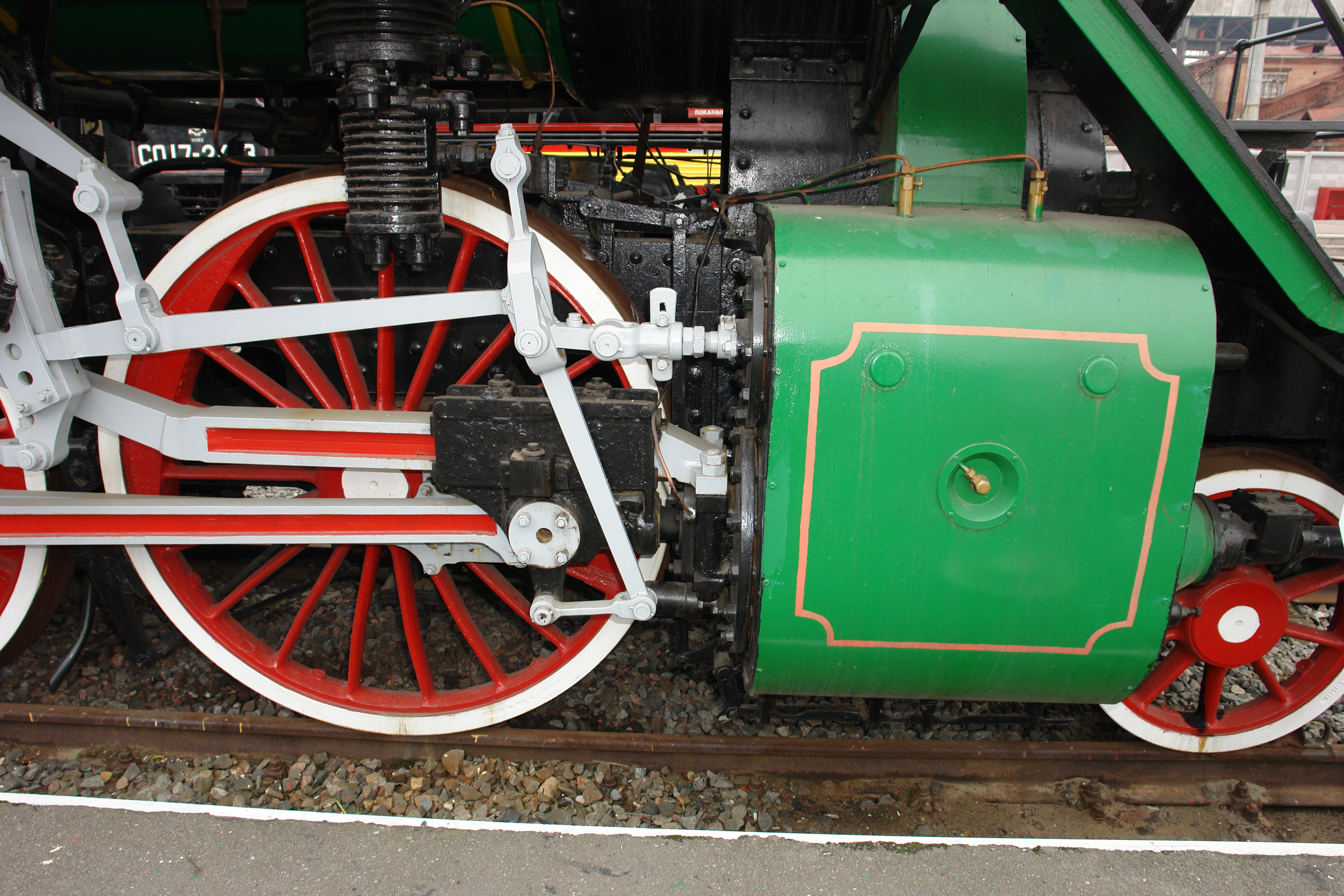 Passenger steam locomotive S.68 Weight in working order:excluding tender76t.including tender120t.Design speed115 kphMaximum power at wheel rim1300 hp The sole survivor of this class. Withdrawn by the MPS in 1960 and used as a stationary boiler at a Moscow factory which made concrete products. , An unprecedentedly complex restoration effort was undertaken at the October Railways Khovrino locomotive depot (Moscow) in 1982-3. ^ It was initially restored as S-245